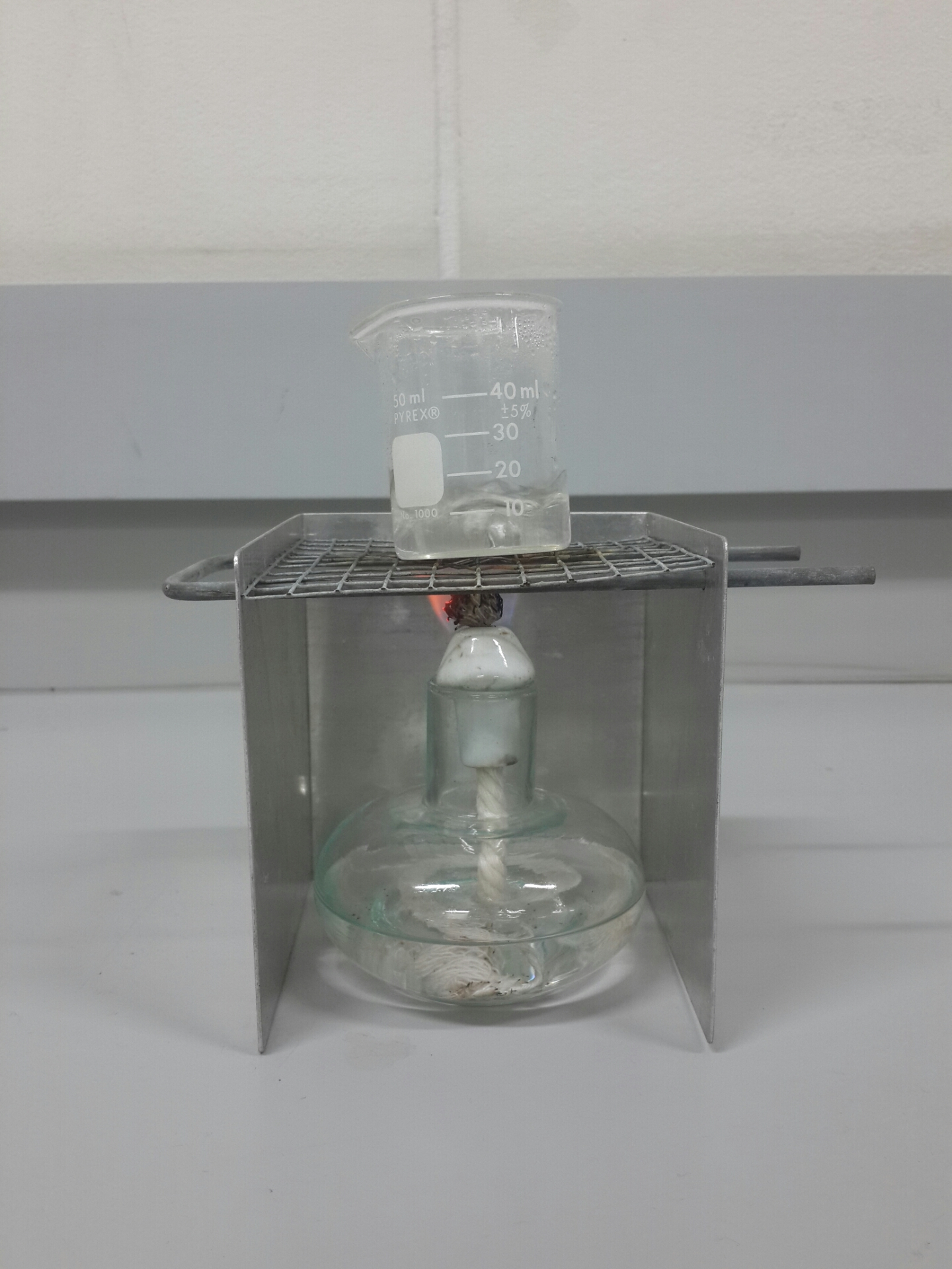 Glass alcohol burner used as a heat source to boil small amount of liquid.